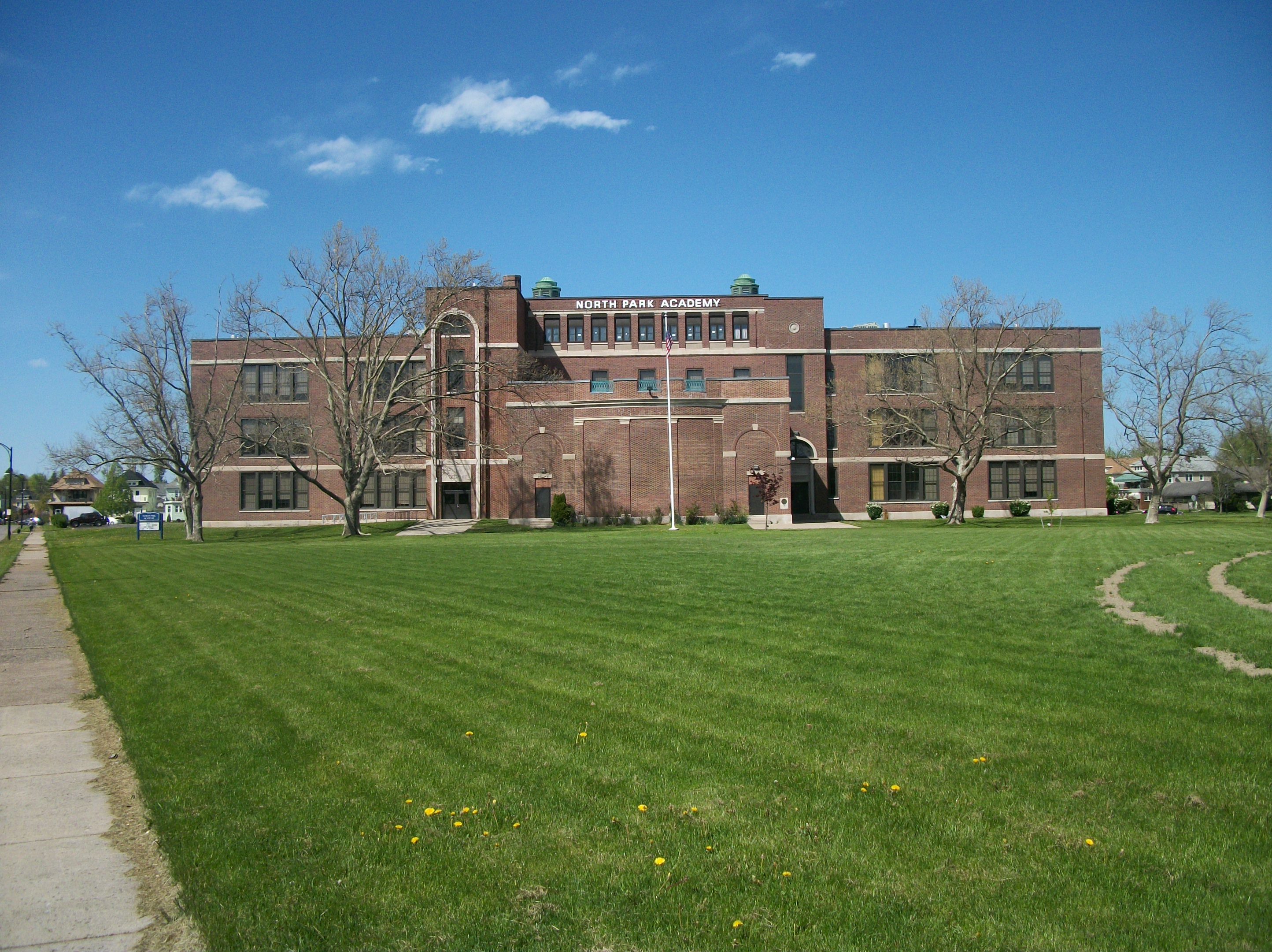 North Park Middle Academy in Buffalo, NY